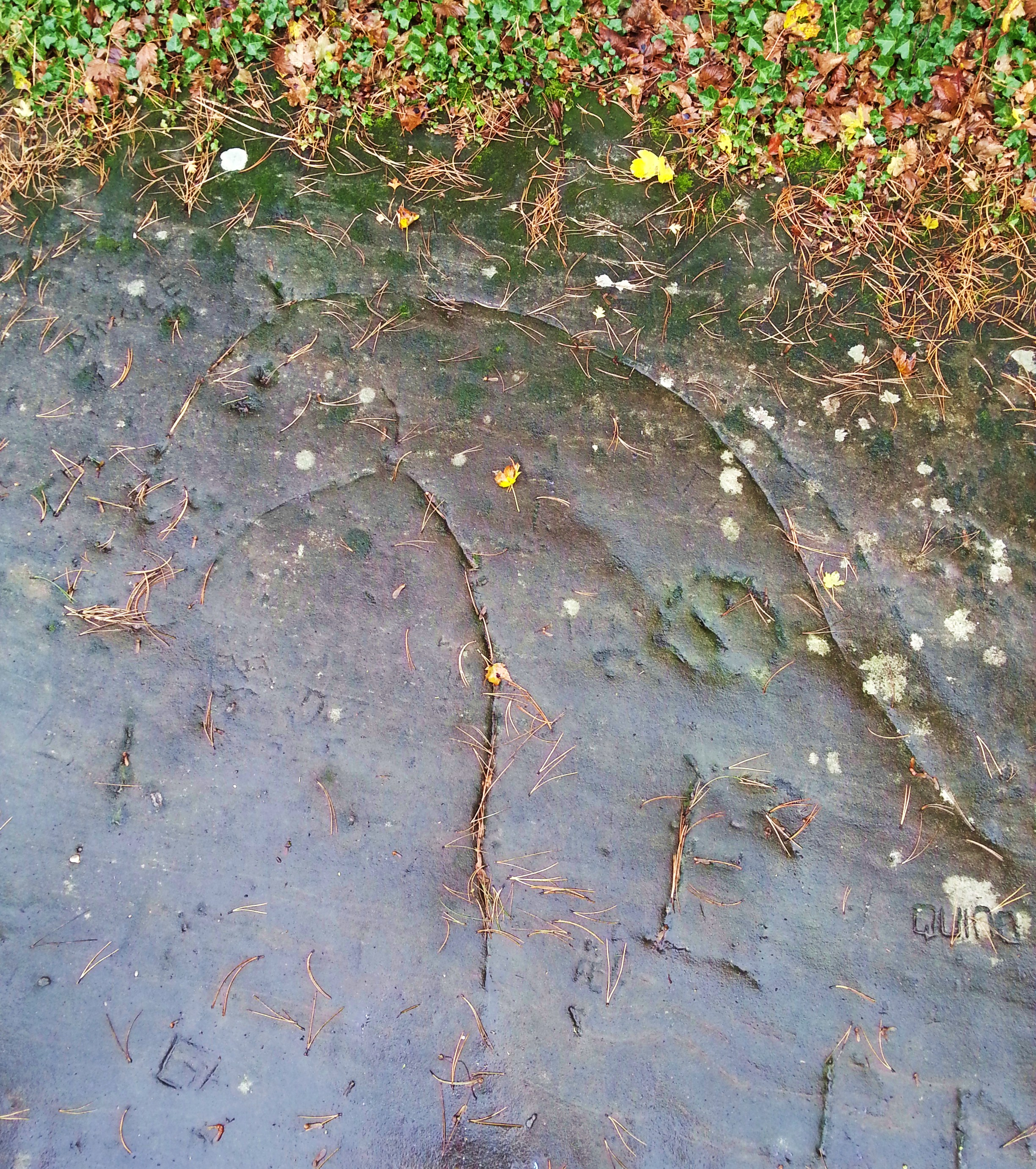 Norse Horses Head Carving, Bidston Hill, Wirral